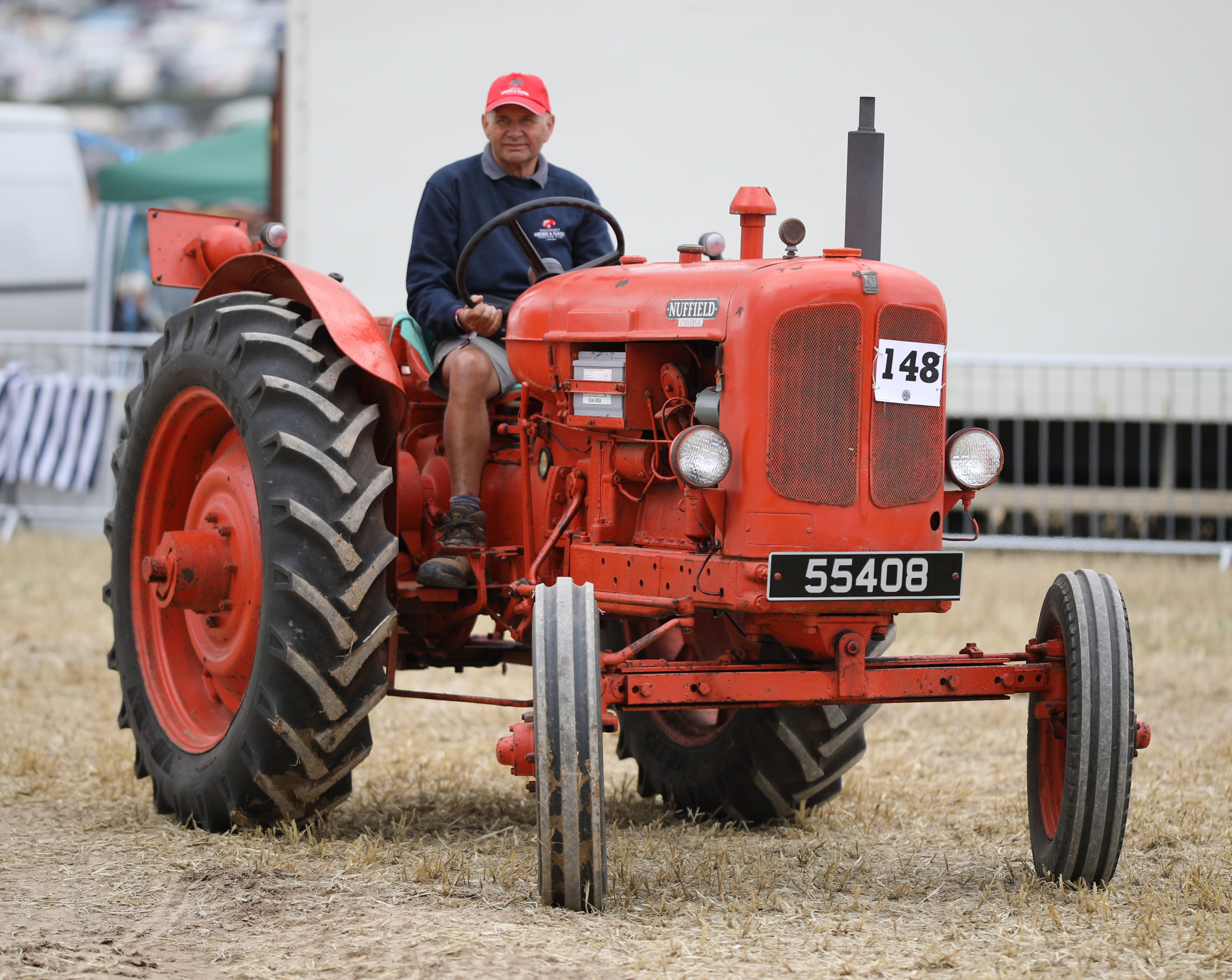 Photo of a 1951 nuffield universal M4 tractor. 2018 GDSF program number 148